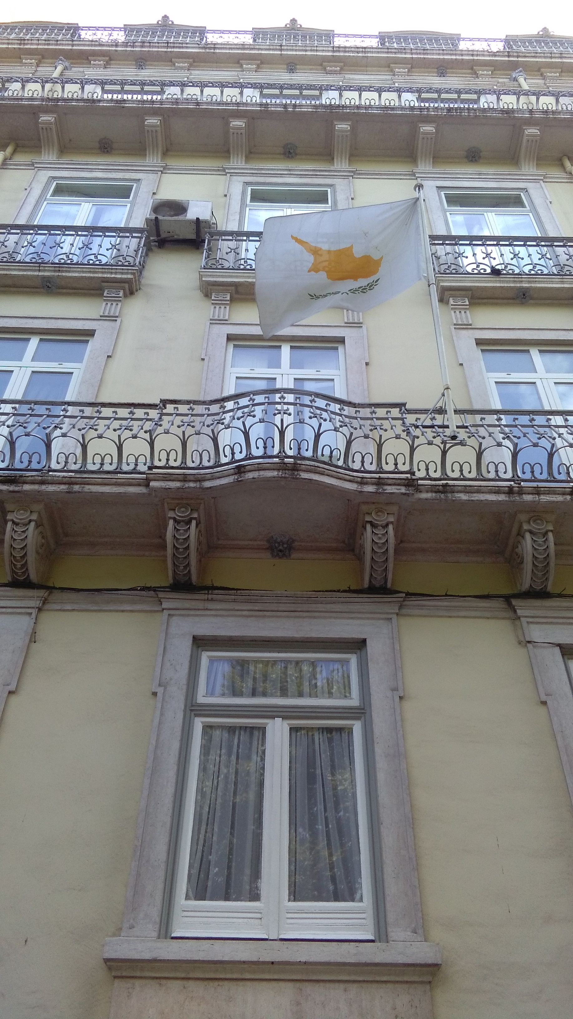 Outside view of the Embassy of the Republic of Cyprus in Lisbon, Portugal.